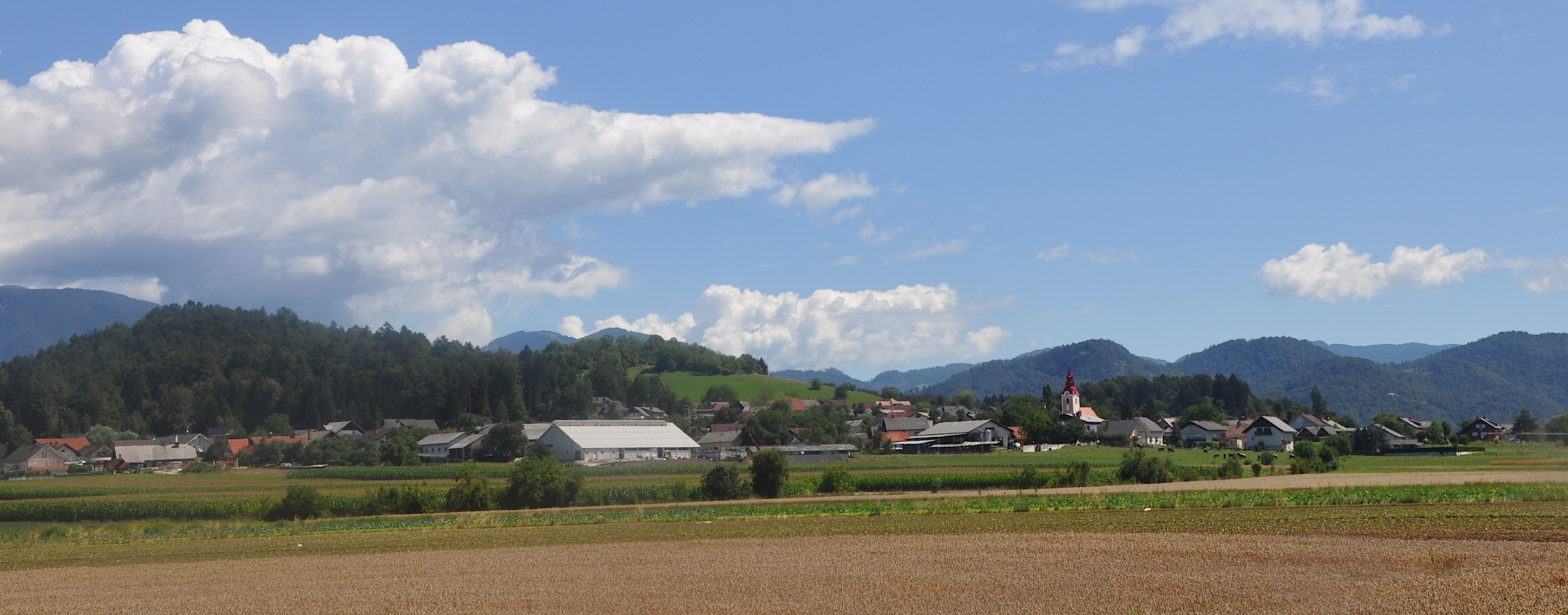 Križ, village in Slovenia, near Komenda.